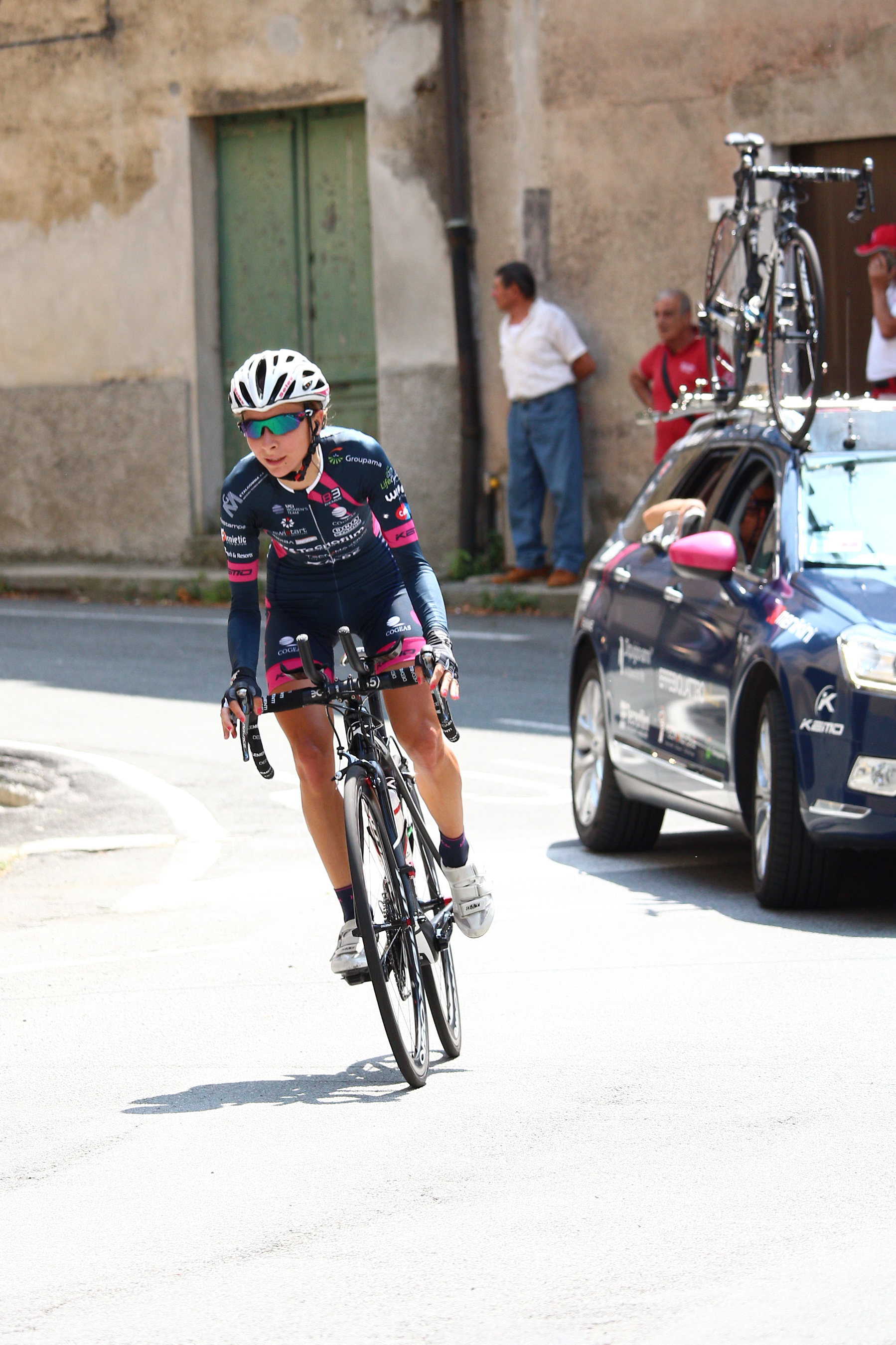 Kseniya Tuhai during the 7th stage of Giro Rosa 2016 in Stella San Martino